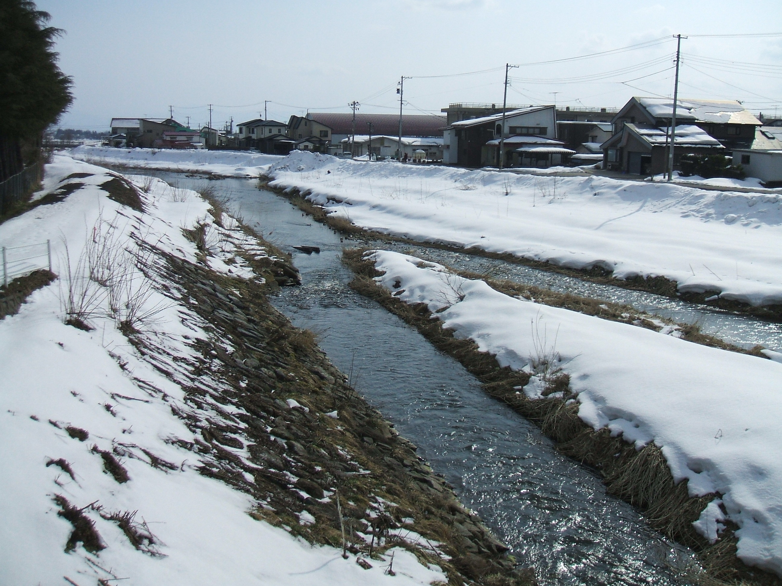 This is a landscape of Taduki-gawa River. It was taken at Inarimiya, Kitakata, Fukushima.